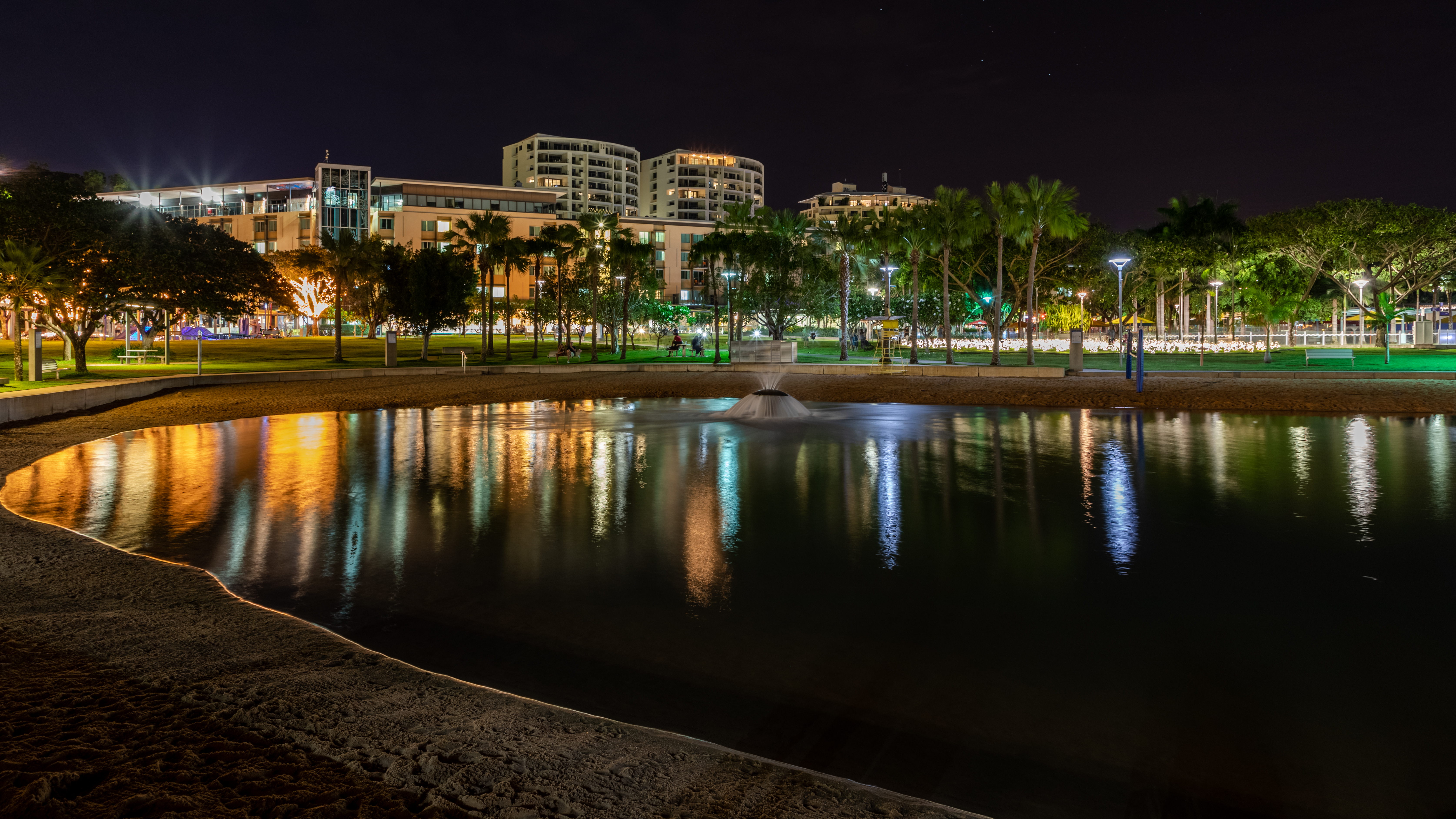 Darwin Waterfront, Darwin, Northern Territory, Australia